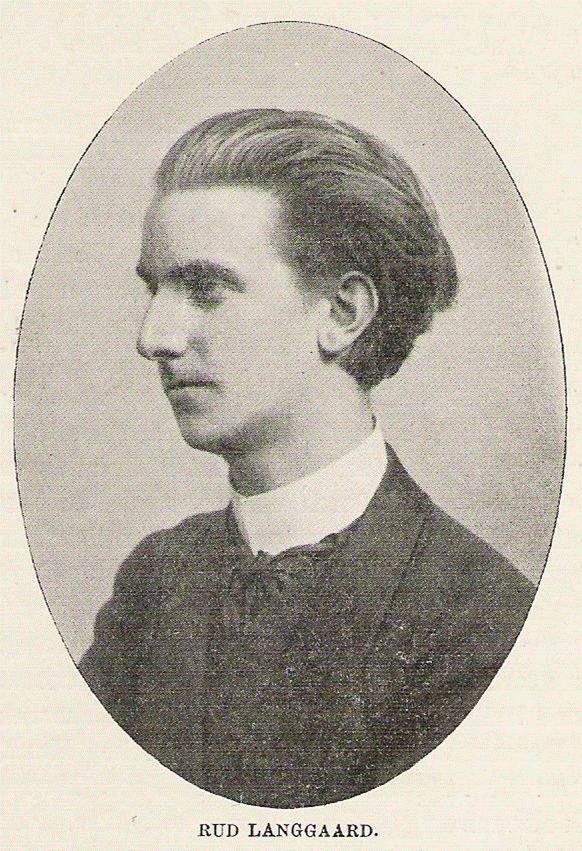 Composer Rued Langgaard (28 July 1893 - died 10 July 1952) was a late-Romantic Danish composer, organist, and conductor. His then-unconventional music was at odds with that of his Danish contemporaries and was recognized only 16 years after his death.